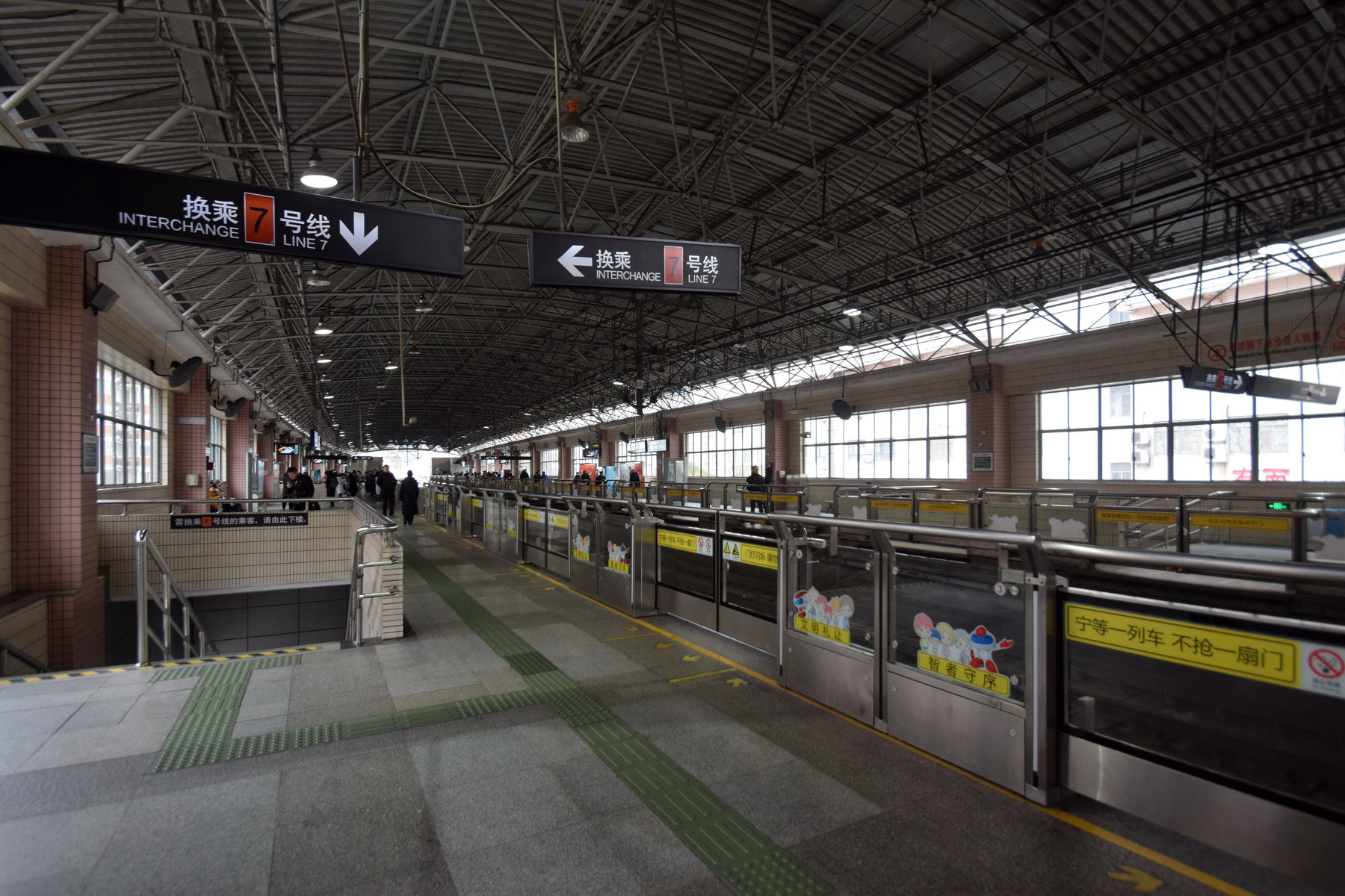 Line 3/4 Platforms of Zhenping Road Station, Shanghai Metro